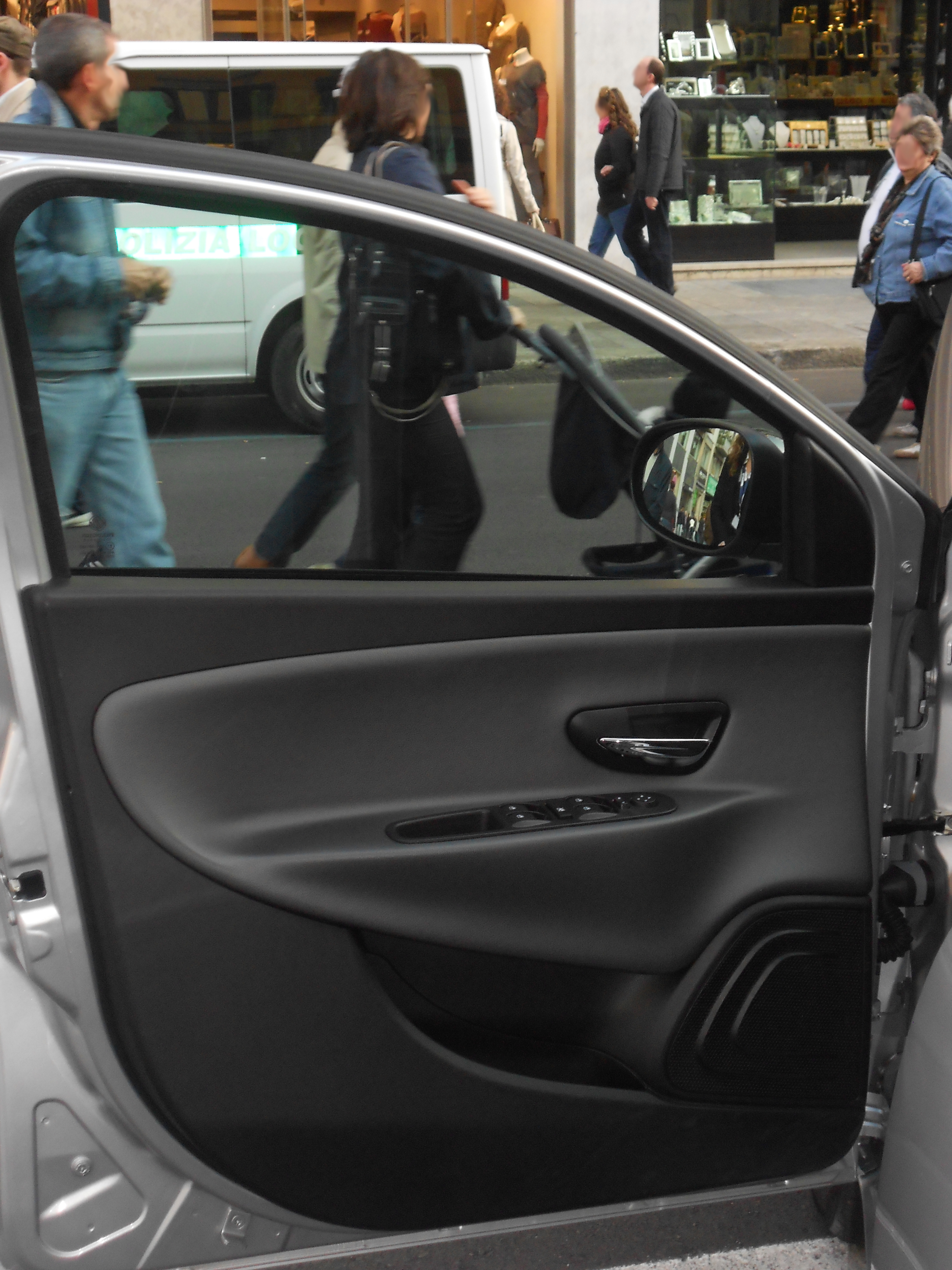 Interior Doors of Lancia Ypsilon